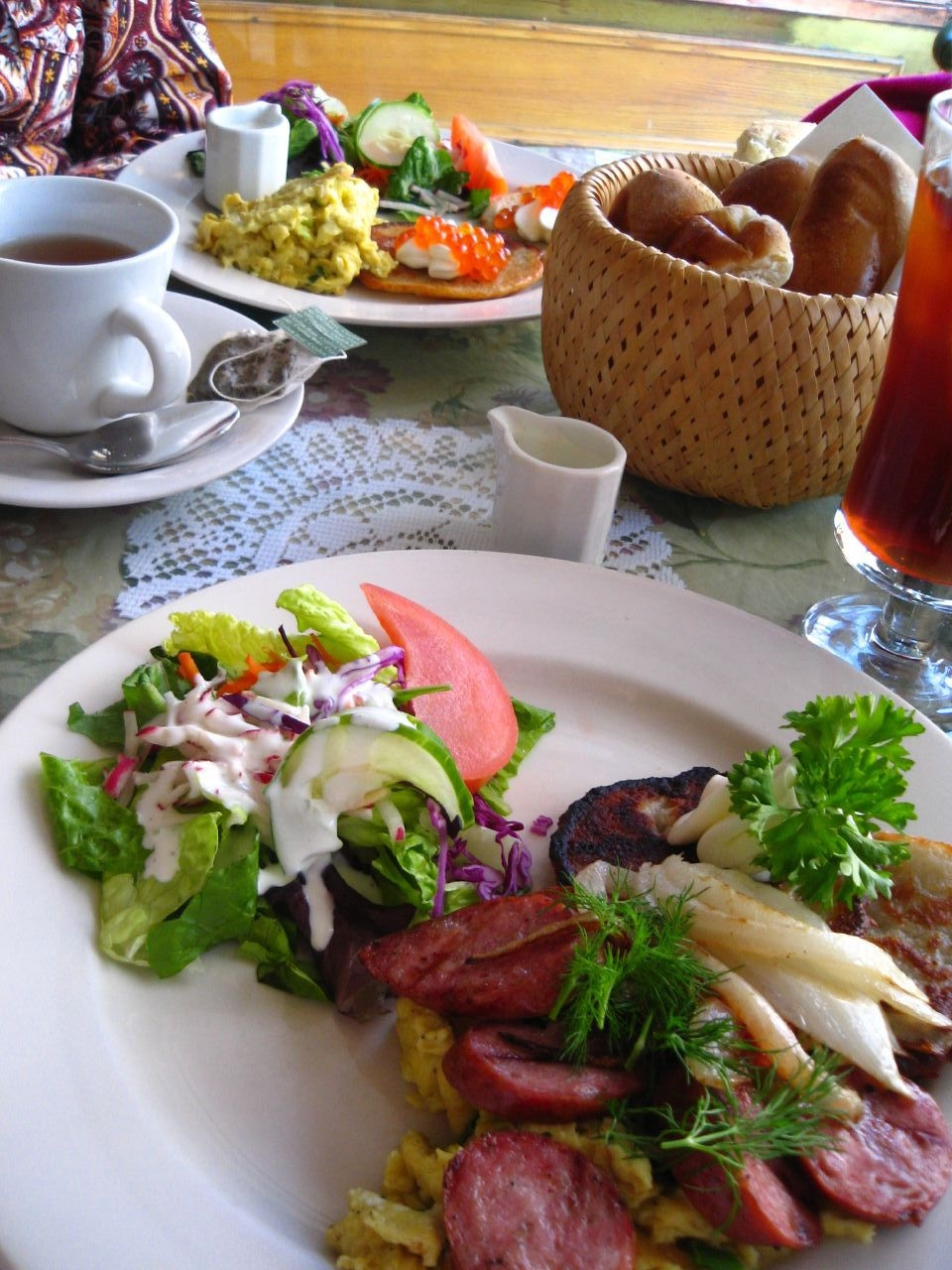 A Polish and Russian brunch plate...